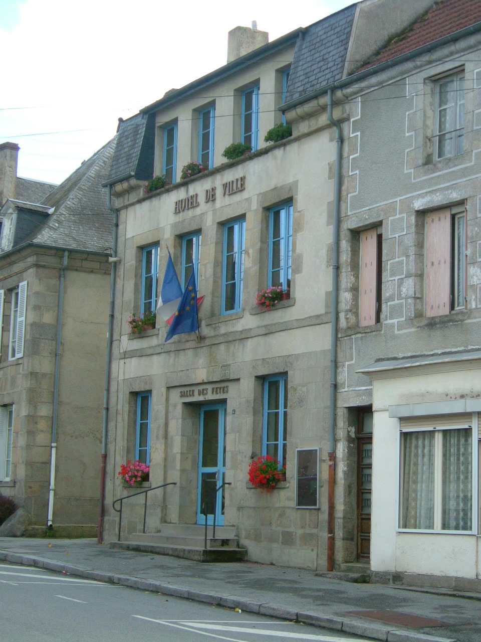 Jarnages the mairie